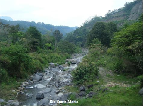 Rio Santa María